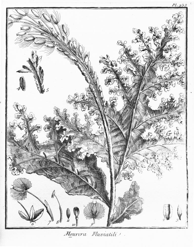 Illustration of Mourera fluviatilis